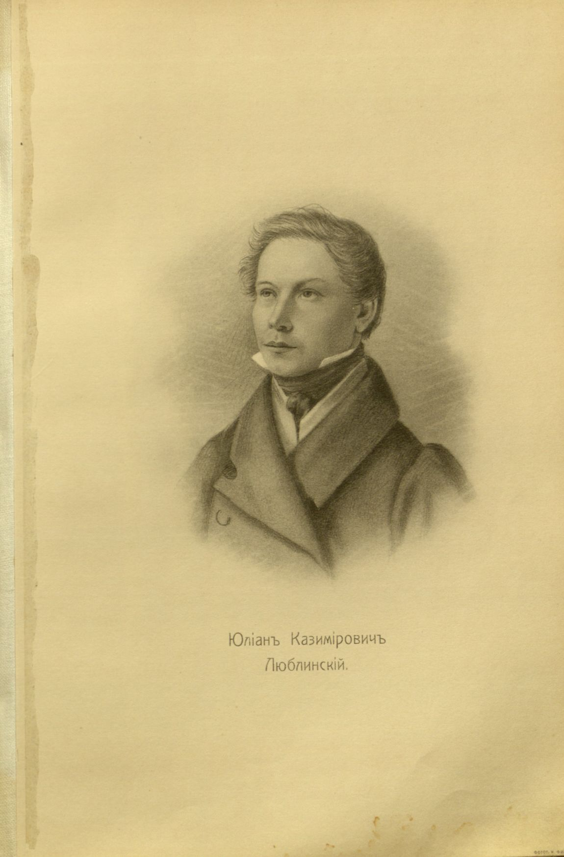 Julian Lublinski (authentical surname Motoszonowicz) (1798-1873), Decembrist